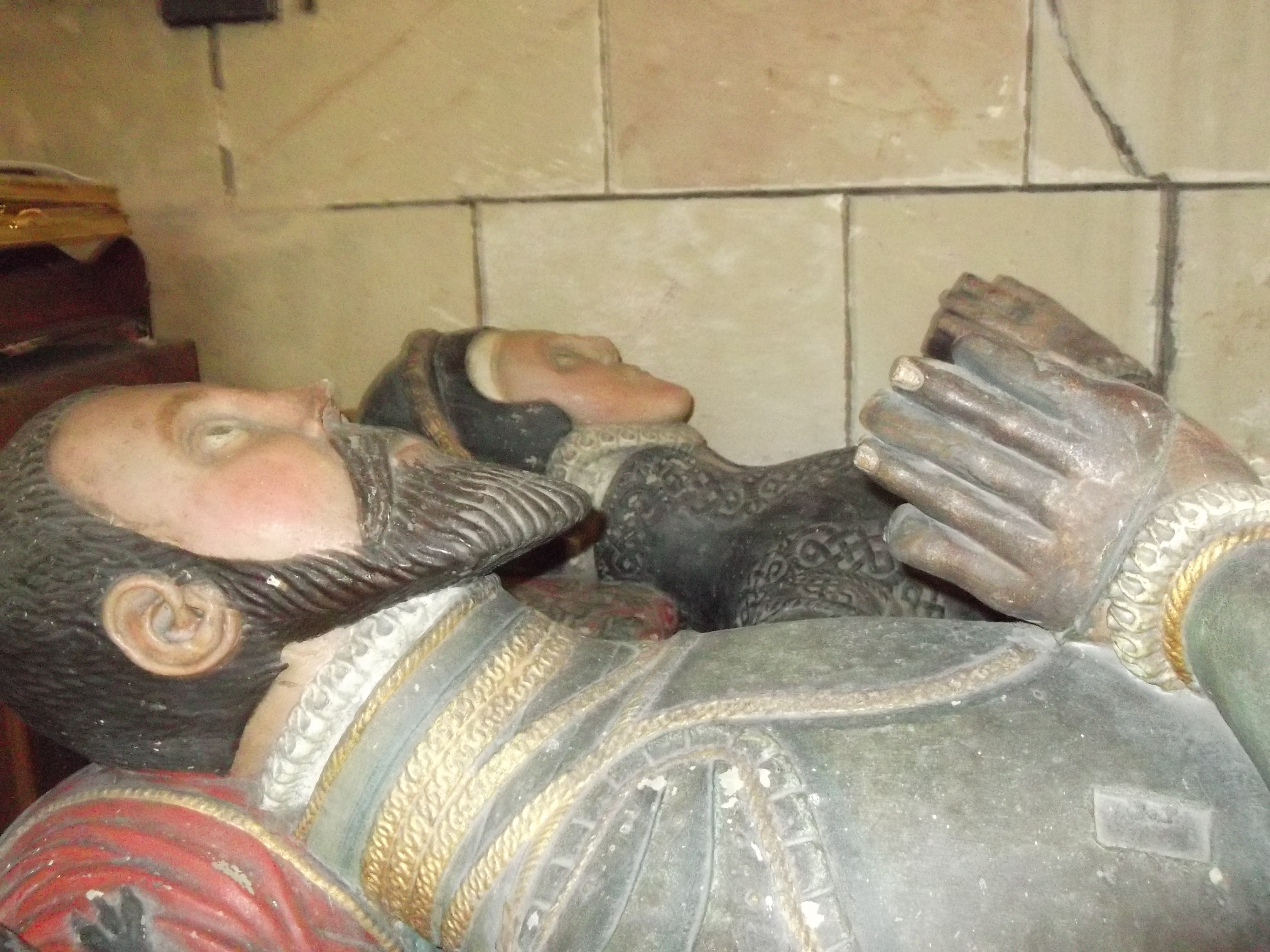 Church of St Bartholomew, Moreton Corbet, Shropshire. Tomb of Richard Corbet (died 1566) and his wife, Margaret Savile.